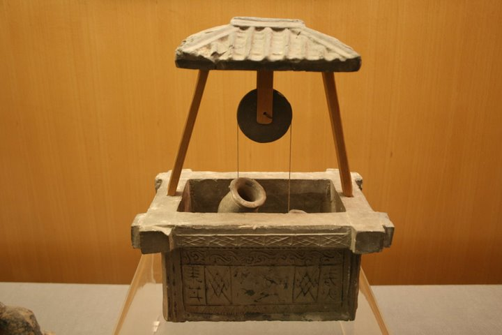 A Chinese pottery model of a well from the Han Dynasty.